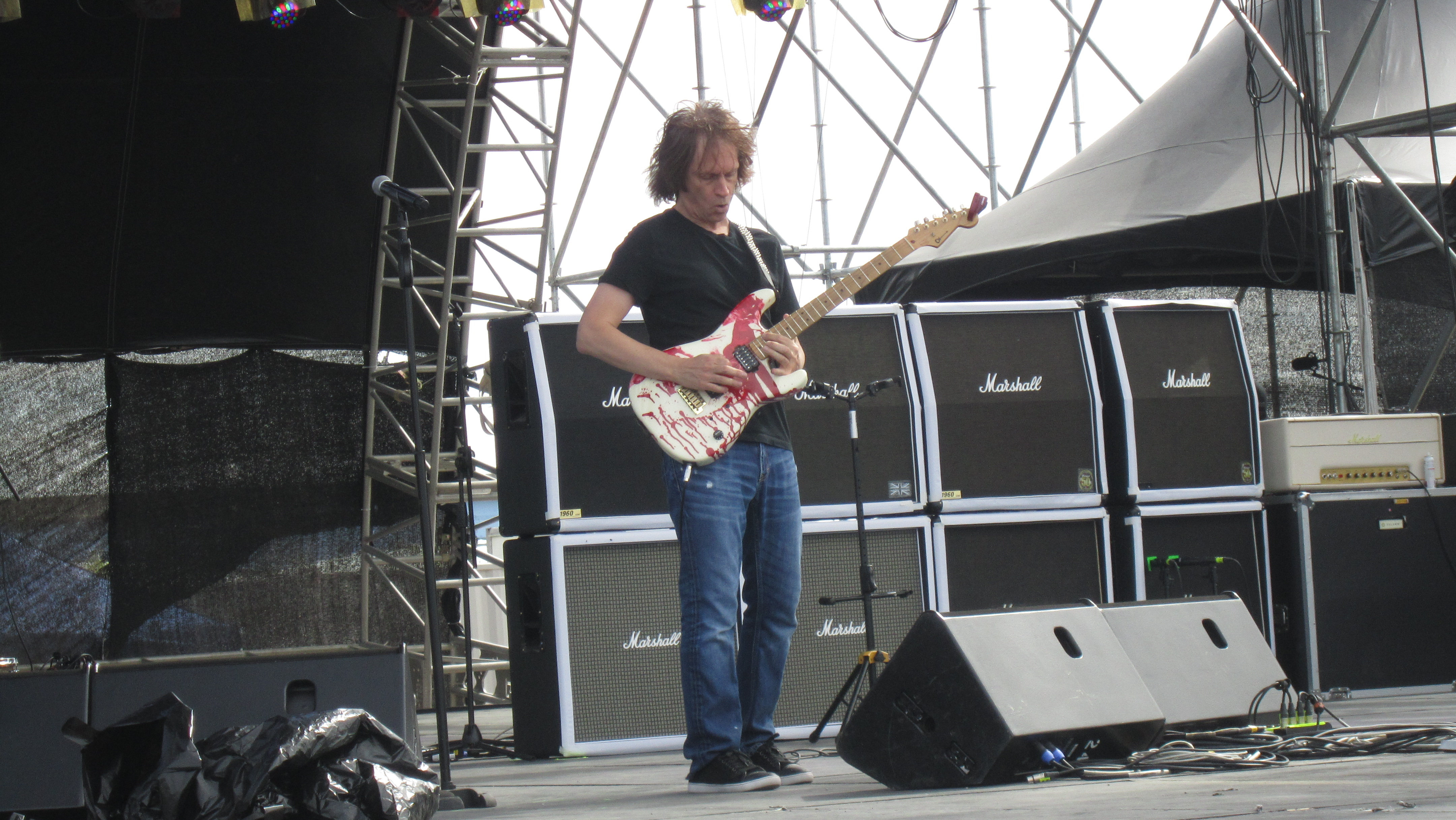 Chris Impellitteri, 2016 Busan Rock Festival